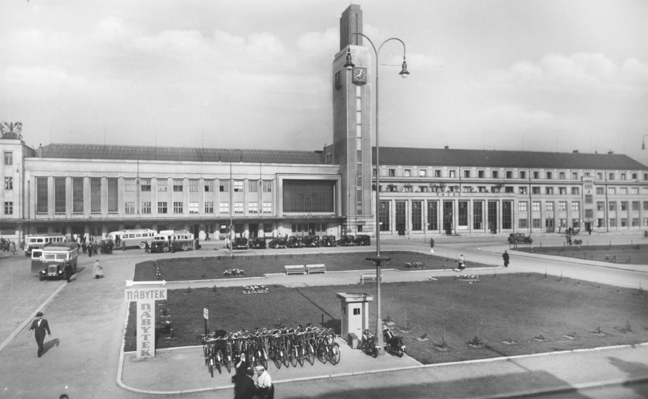 Railway station in Hradec Králové, Czech republic, the end of the 1930s.